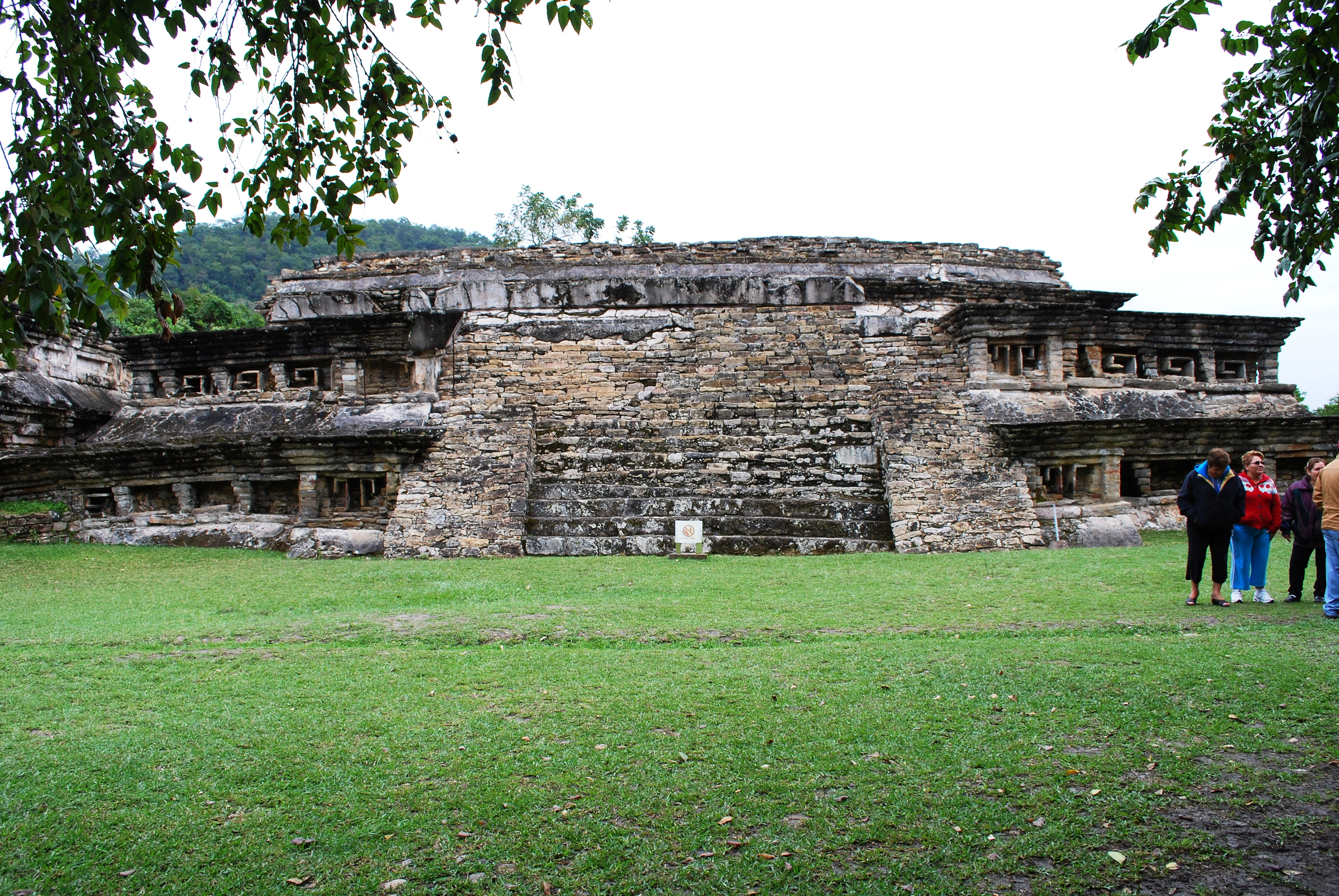 Building C in Tajin Chico section of Tajin, Veracruz, Mexico